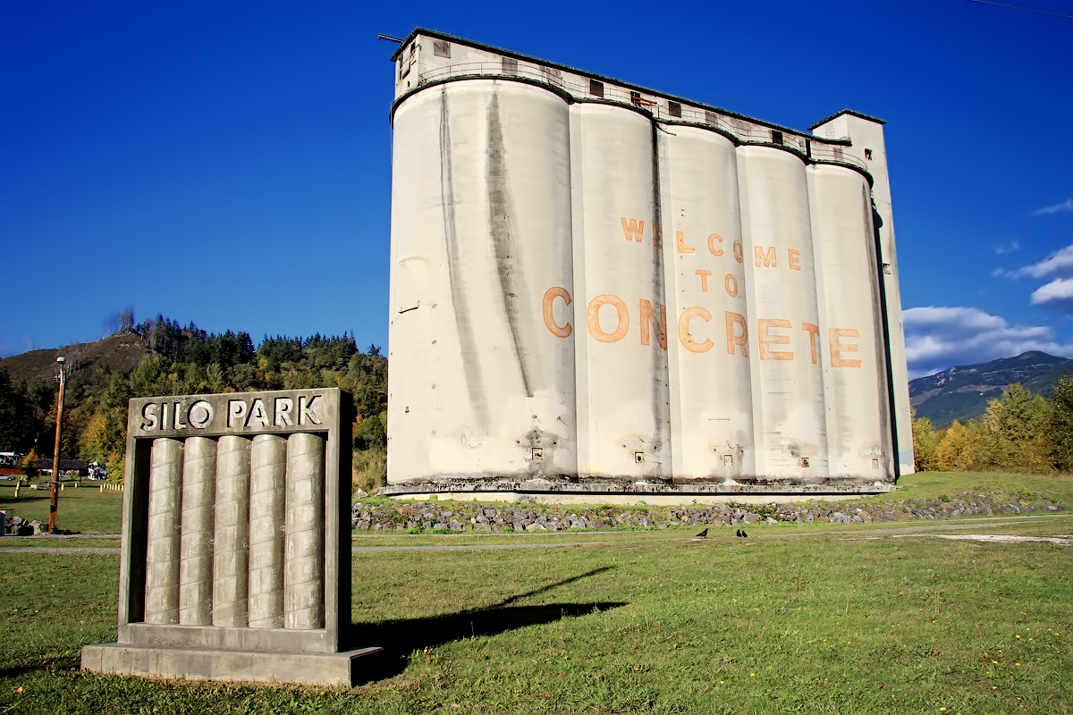 Portland Superior Cement Silos at Superior Avenue and Highway 20 — Concrete, Washington